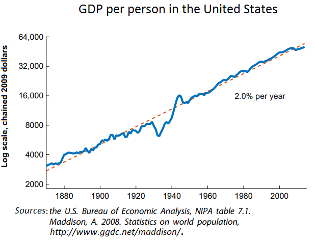 GDP per person in the United States